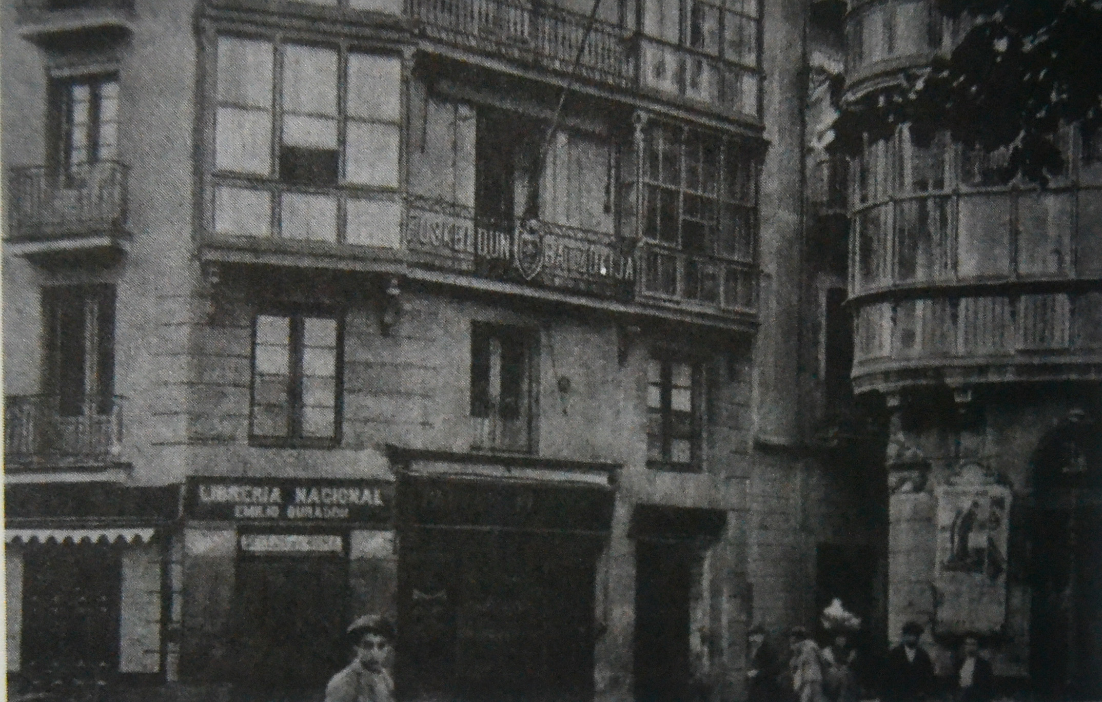 Local of basque nationalism society Euskaldun Batzokija in Correos Street, Bilbao. 1894-1895. Biscay, Basque Country.